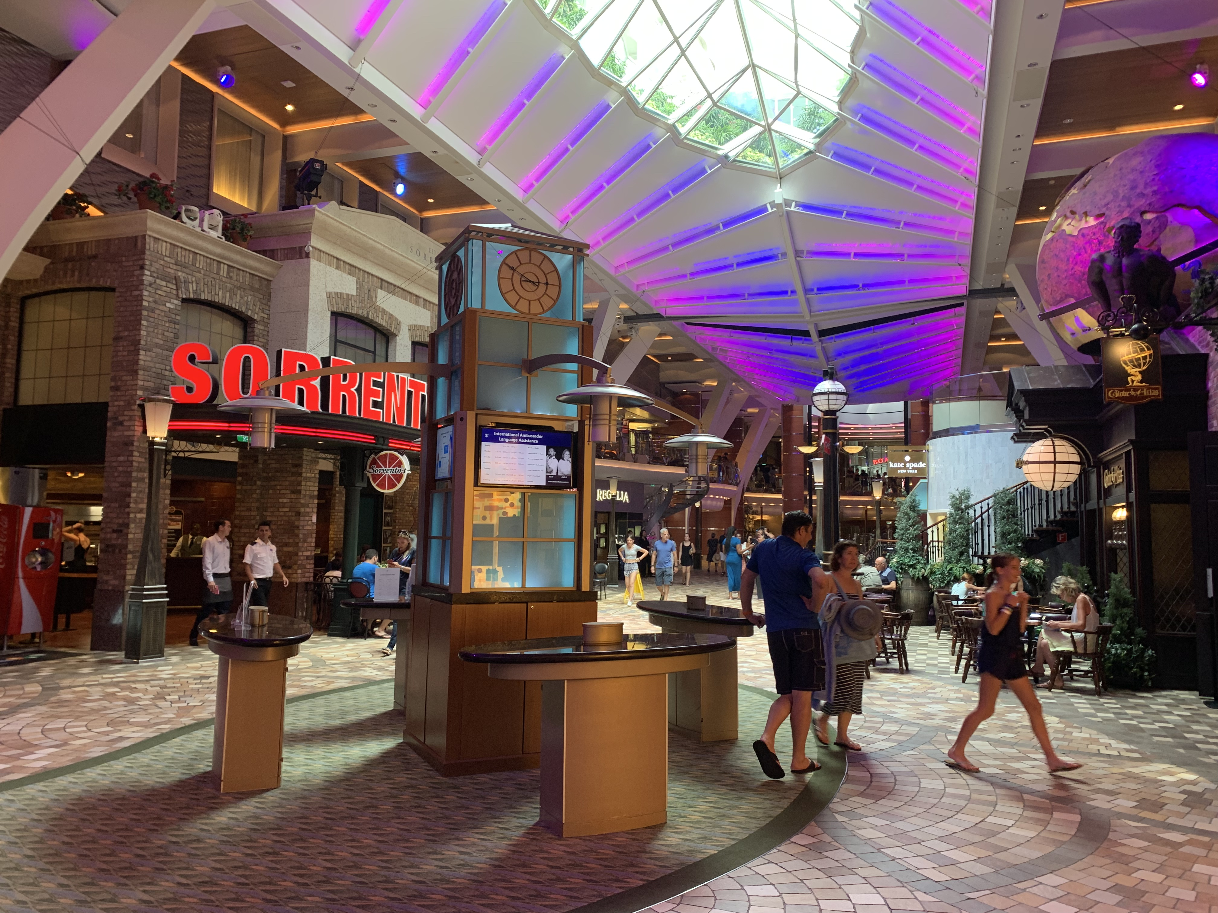 View of the Oasis of the Seas' Royal Promenade; facing aft from the midship info desk.